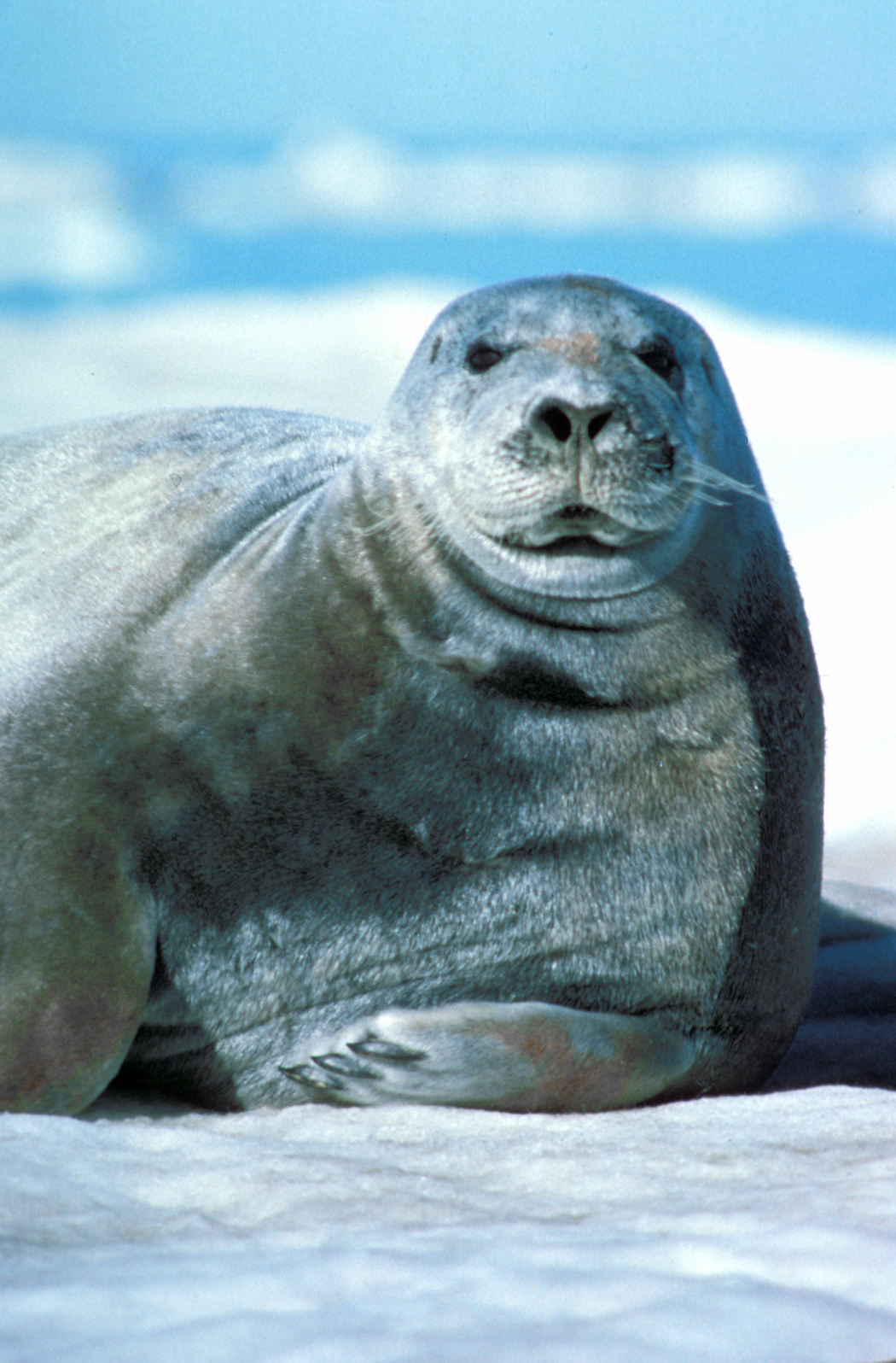 Bearded seal